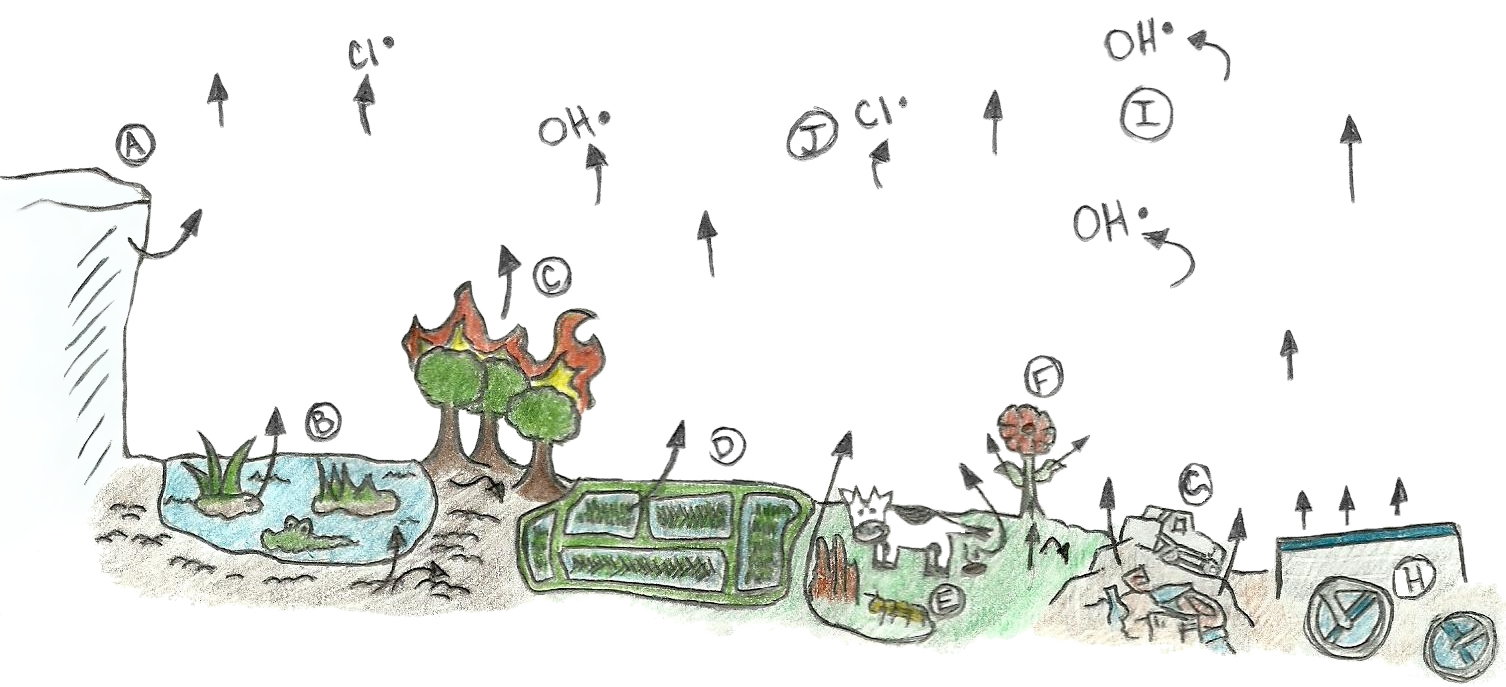 This diagram depicts the flow of methane from sources into the atmosphere as well as the sinks that consume methane. A. Permafrost, Glaciers, and Ice Cores – A source that slowly releases methane trapped in frozen environments as global temperatures rise B. Wetlands – Warm temperatures and moist environments are ideal for methane production. Most of the methane makes it past methane-consuming microorganisms. C. Forest Fires – Mass burning of organic matter releases huge amounts of methane into the atmosphere. D. Rice Paddies – The warmer and moister the rice field, the more methane is produced. E. Animals – Microorganisms breaking down difficult to digest material in the guts of ruminant livestock and termites produce methane that is then released during defecation. F. Plants – While methane can be consumed in soil before being released into the atmosphere, plants allow for direct travel of methane up through the roots and leaves and into the atmosphere. Plants may also be direct producers of methane. G. Landfills – Decaying organic matter and anaerobic conditions cause landfills to be a significant source of methane. H. Waste Water Treatment Facilities – Anaerobic treatment of organic compounds in the water results in the production of methane. I. Hydroxyl Radical – OH in the atmosphere is the largest sink for atmospheric methane as well as one of the most significant sources of water vapor in the upper atmosphere. J. Chlorine Radical – Free chlorine in the atmosphere also reacts with methane.